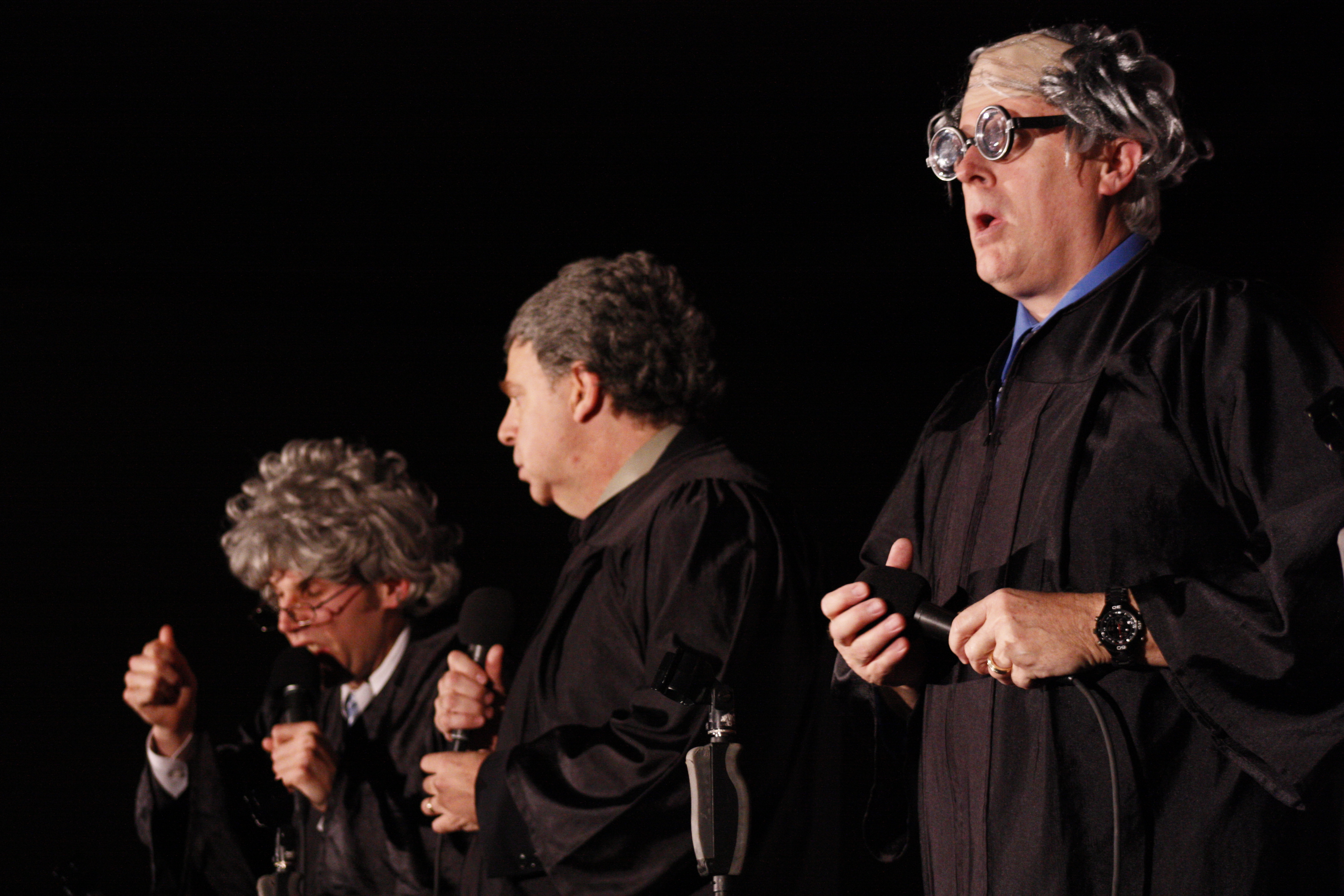 The Capitol Steps Perform at CUA Photo by Ryan J. Reilly / The Tower